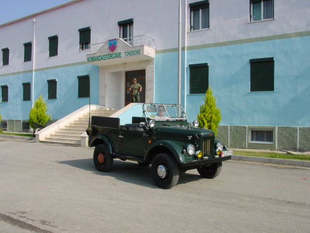 Soviet made GAZ jeep formerly used by the Albanian military